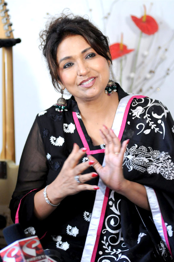 Mitali Singh rehearses for their upcoming music album Aksar